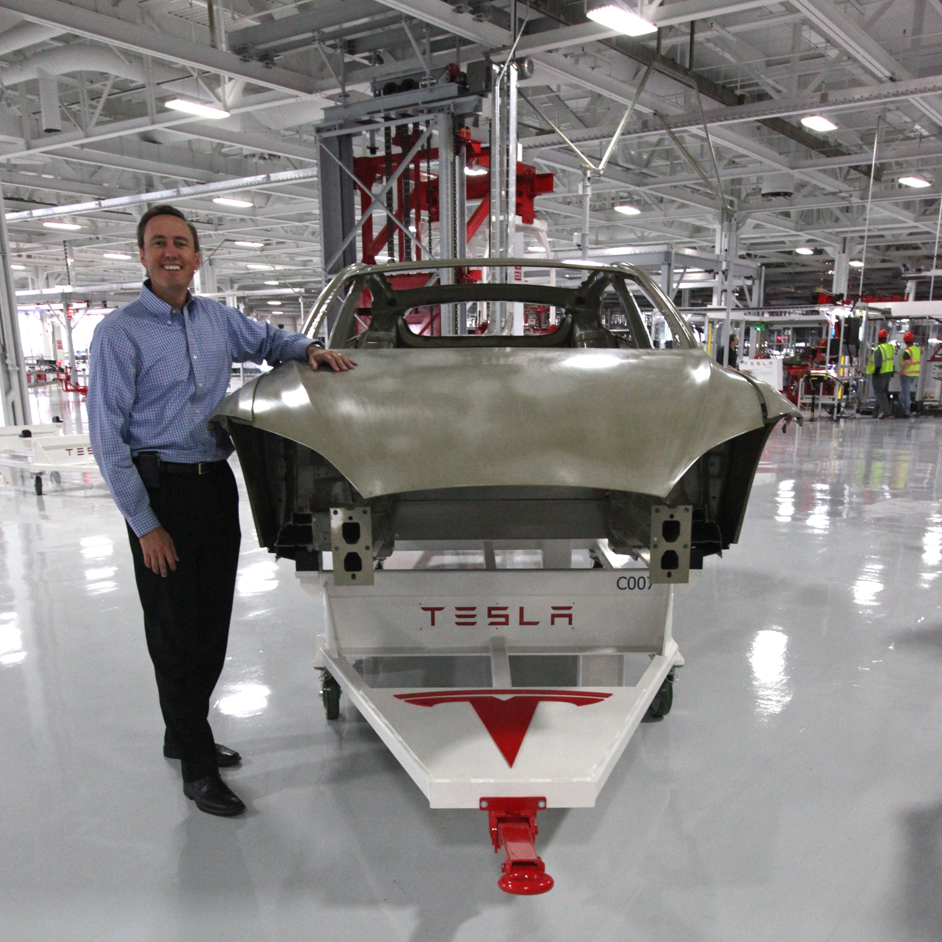 The place was crawling with Autobots!